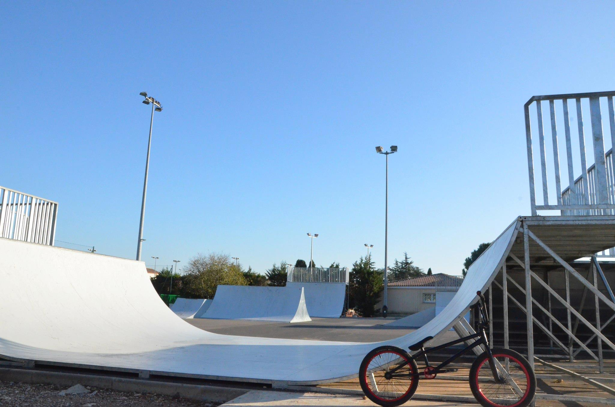 Mini (halfpipe) in the skatepark of Vendargues